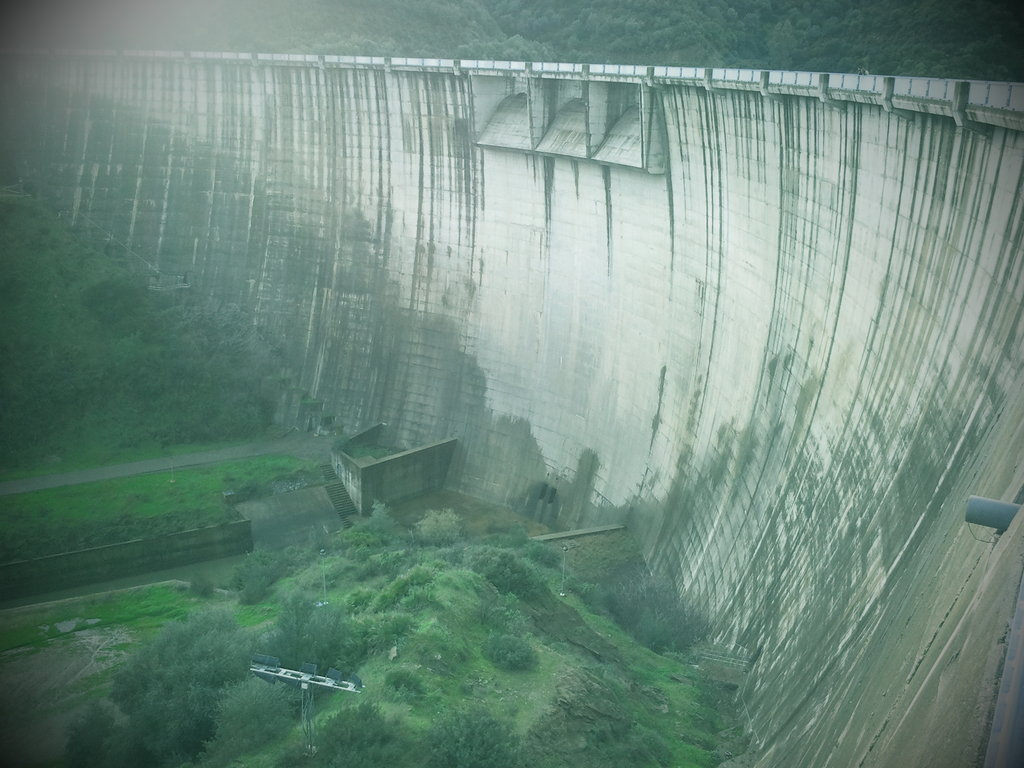 Taken with picplz.